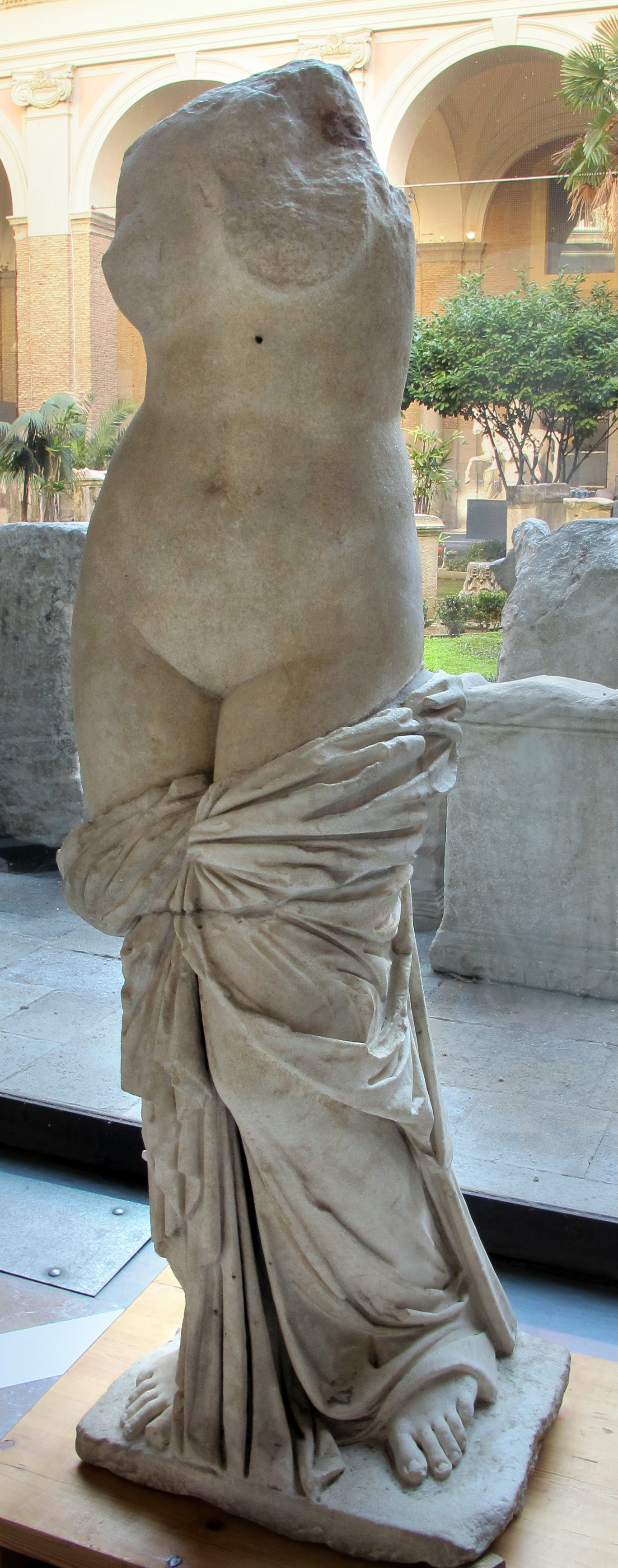 Ancient Roman statues in the Museo Archeologico (Naples)